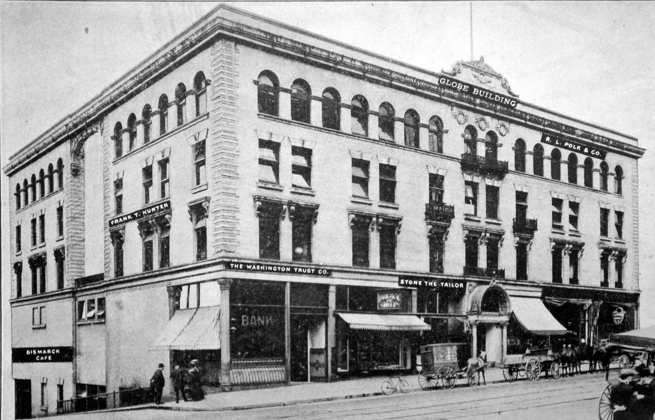 The Globe Building, Seattle, Washington, 1905. Now (as of 2008) part of the Alexis Hotel, this stands at the northwest corner of First and Madison. The white-on-black lettering is not part of the actual building, it was added by Polk's.